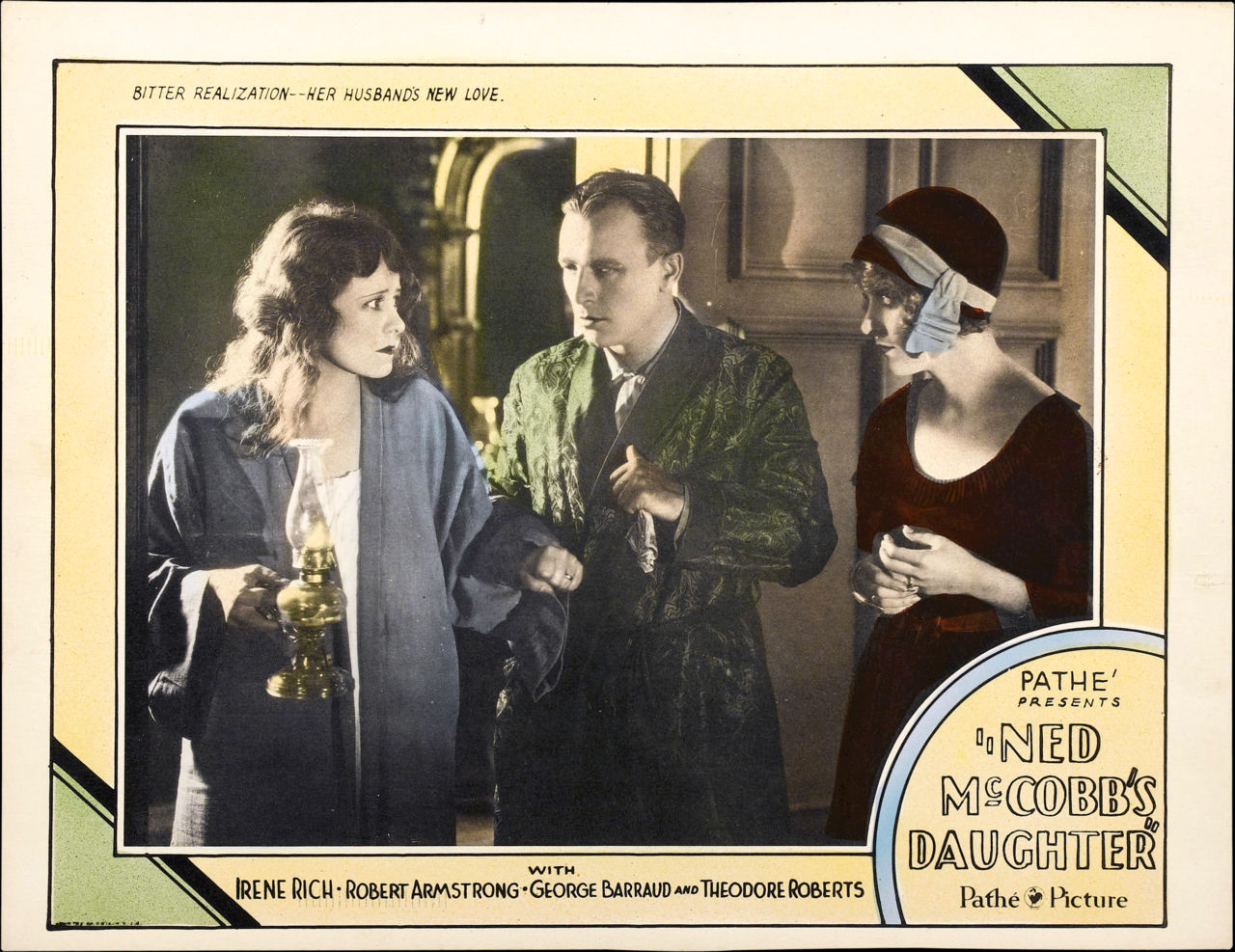 Lobby card for the American drama film Ned McCobb's Daughter (1928). There are no copyright marks on the card. At bottom left (in border) is Country of origin USA.